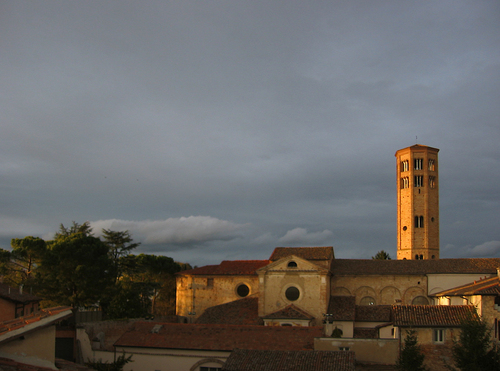 Piazza del Popolo of Faenza at night